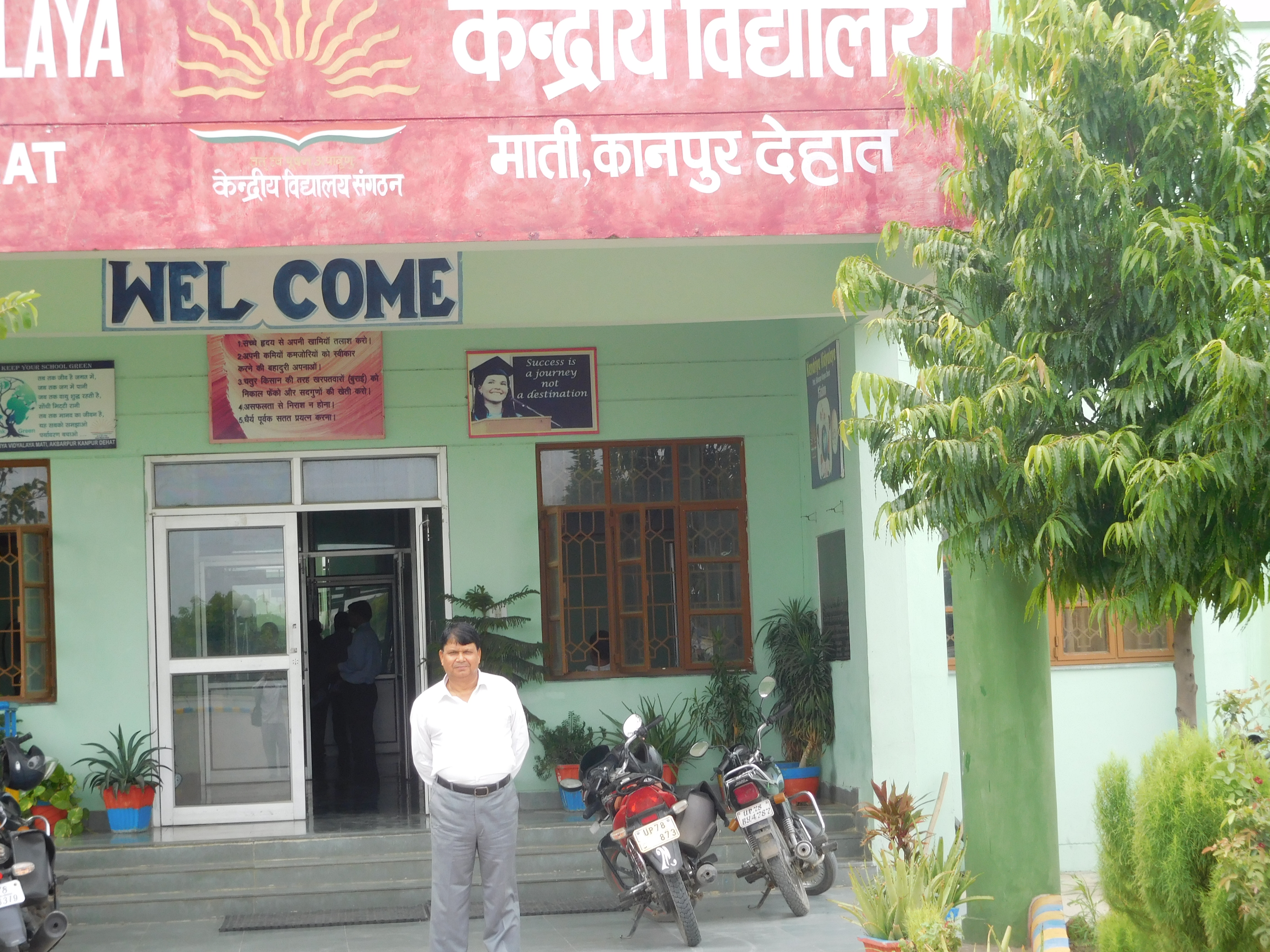 Kendriya Vidyalaya Mati,Akbarpur ,Kanpur Dehat,UP, India